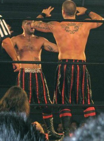 The Briscoe brothers live at an ROH event in Philadelphia Pennyslvania in 2006.